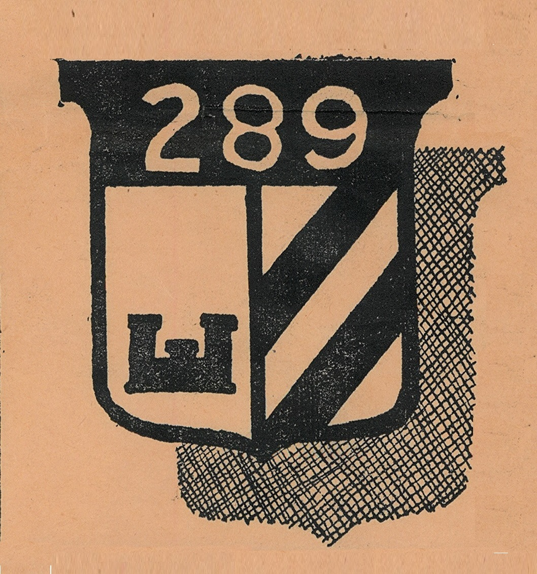 Pen and ink reproduction of the insignia of the 289th Engineer Combat Battalion